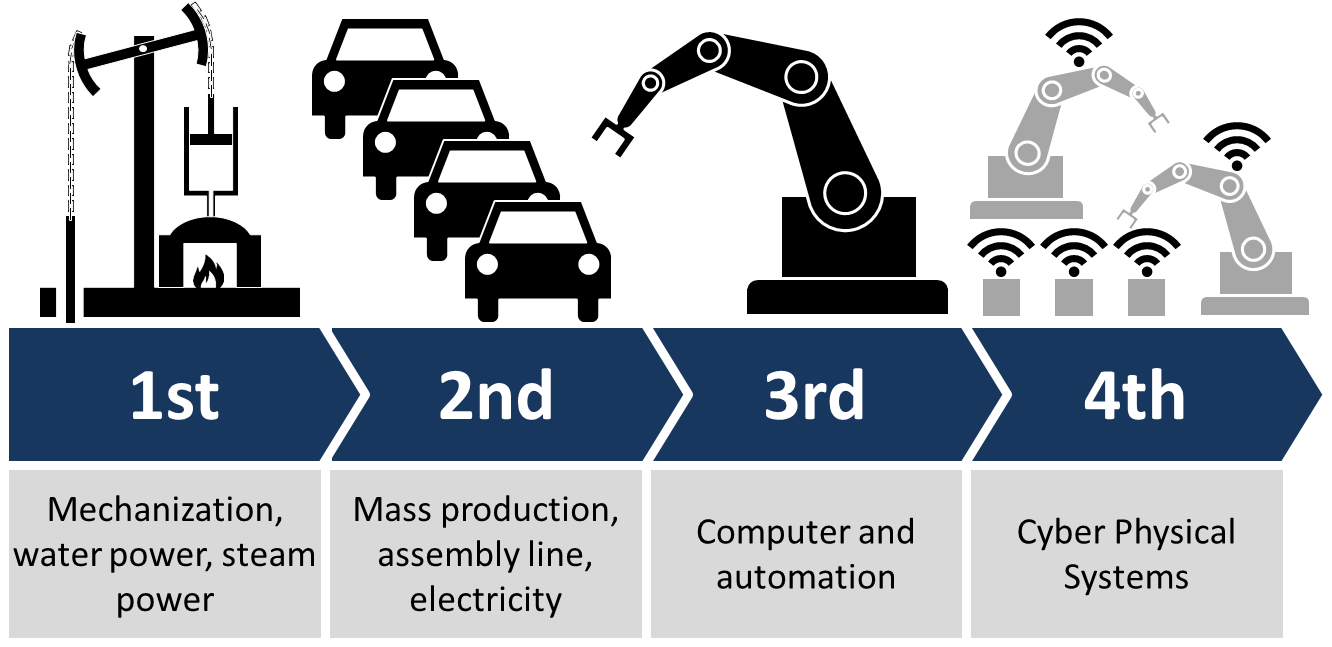 Illustration of Industry 4.0, showing the four "industrial revolutions" with a brief English description. See also File:Industry 4.0 NoText.png for a version without text.